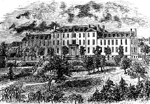 Drawing of Fenwick Hall (built 1843-44) at the College of the Holy Cross in Worcester, Massachusetts as it appears in 1844